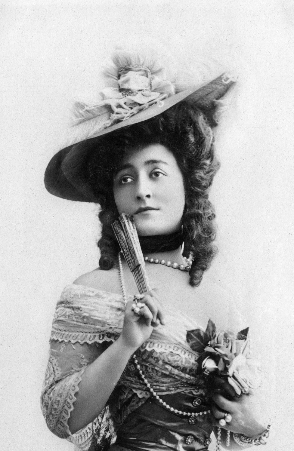 Cécile Sorel, by Reutlinger.